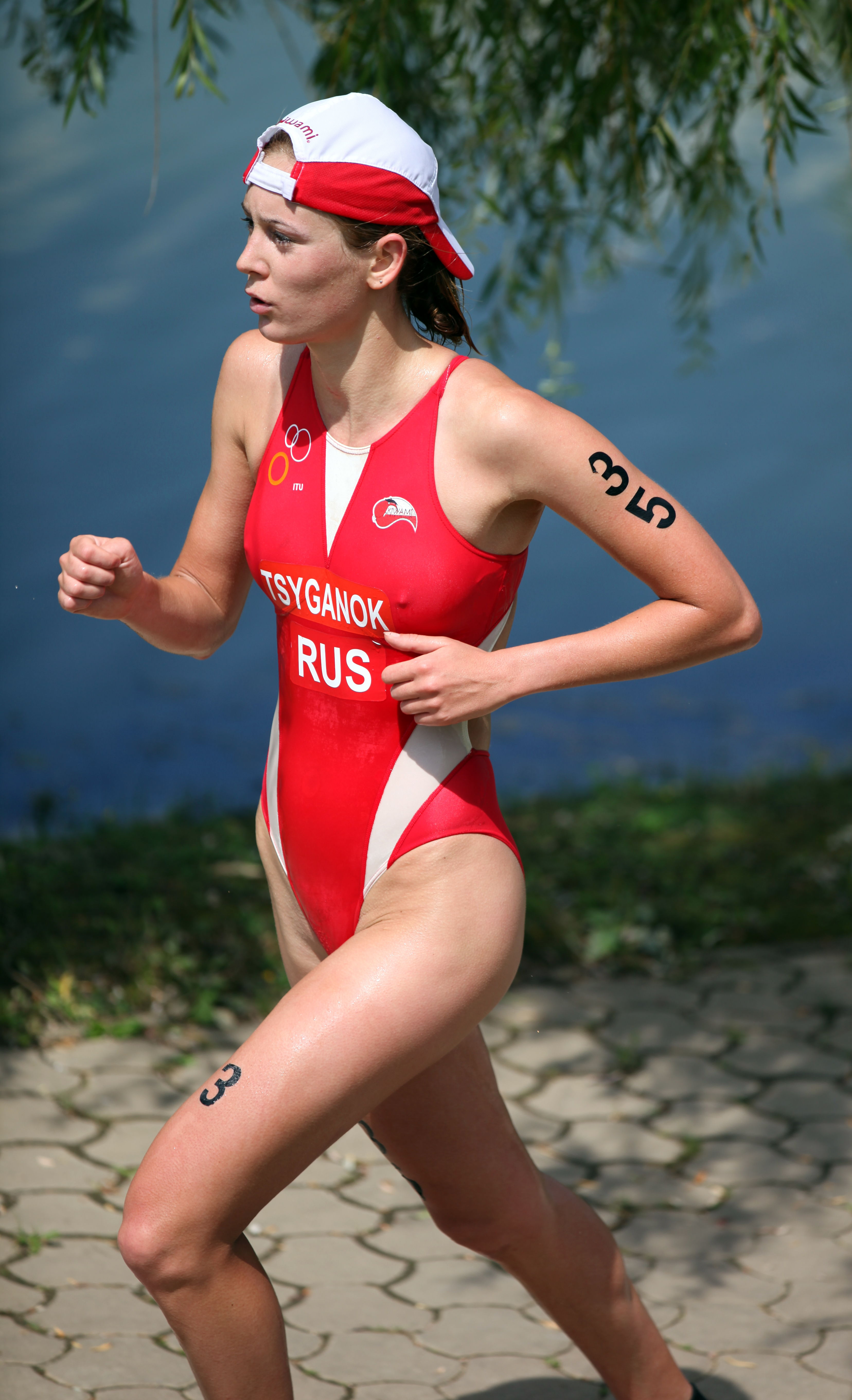 Inna Tsyganok (Інна Циганок, Russian Инна Цыганок) at the World Cup elite triathlon in Tiszaújváros, 2011.